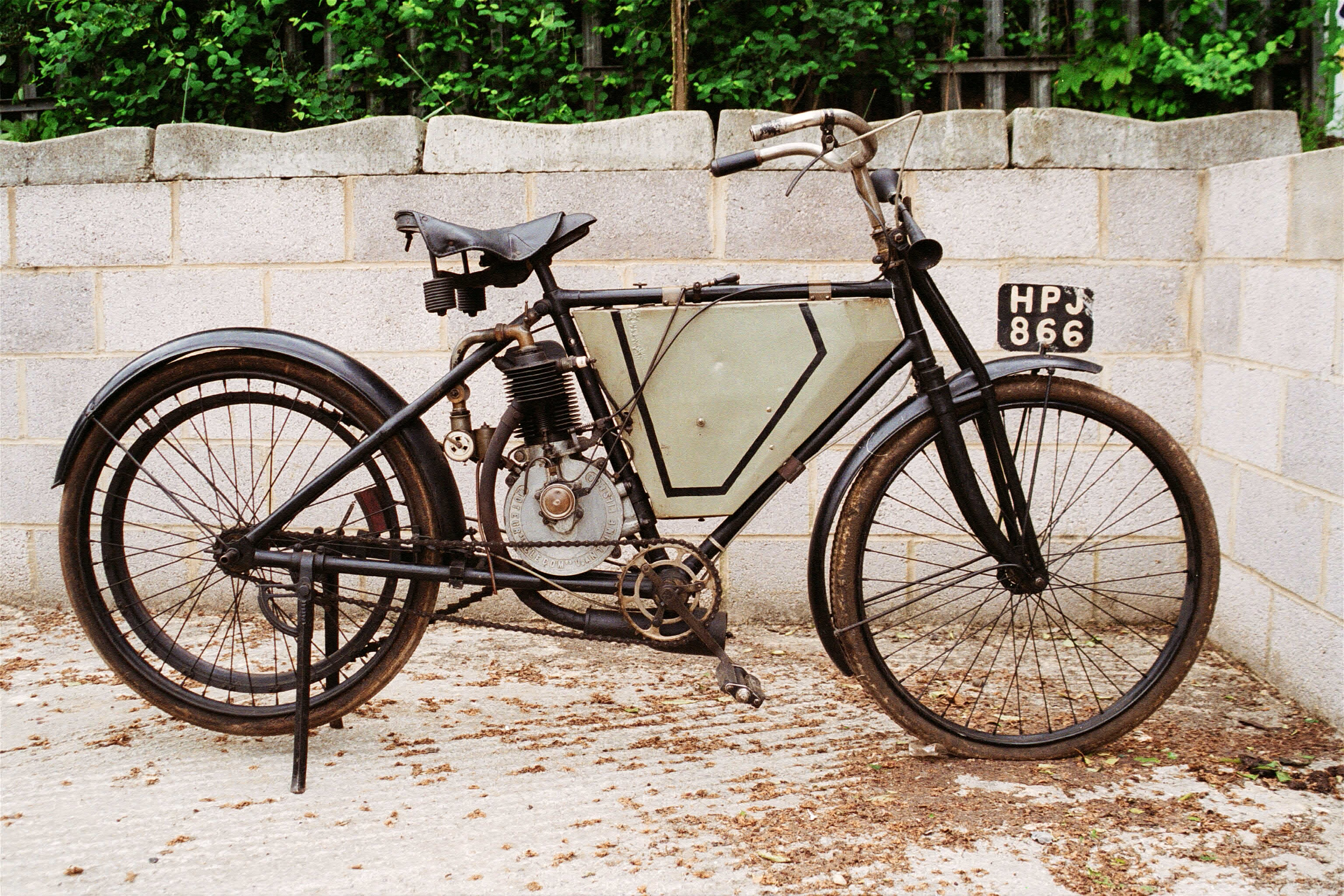 1902 Ormonde motorcycle from the London Motorcycle Museum